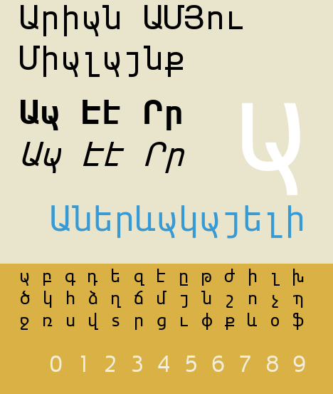 The specimen of Arian AMU Mono font.